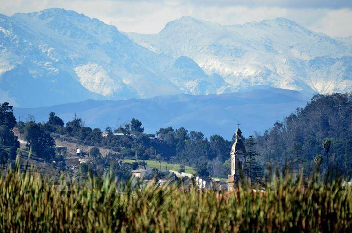 La Serena, CHile